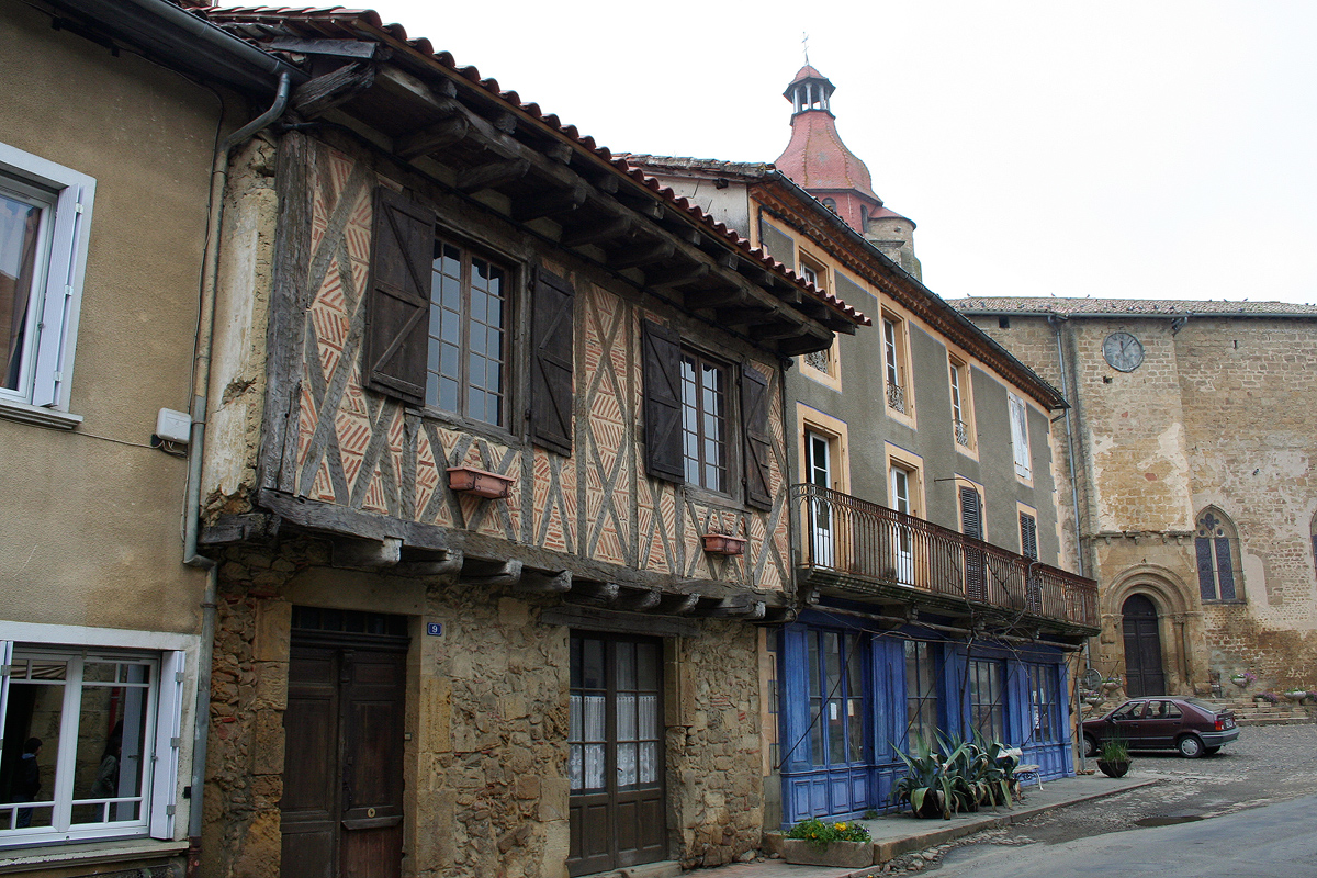 Aignan (Gers, France). The village.